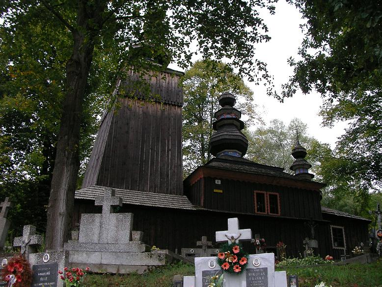 Hunkovce, Greek-Catholic Church of the Protection of the Mother of God.